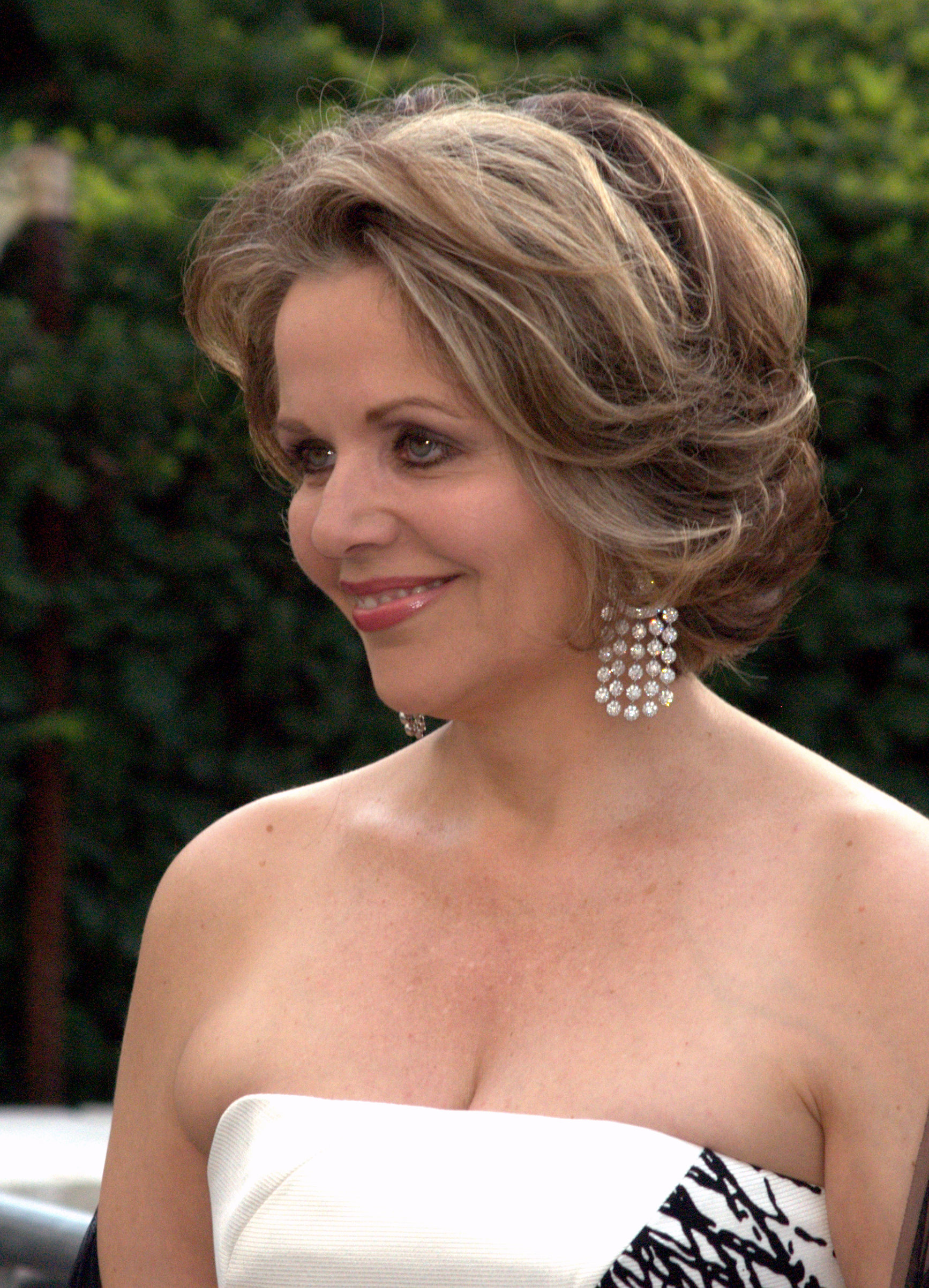 Renée Fleming at the 2009 premiere of the Metropolitan Opera in New York City. Photographer's blog post about event and photograph.